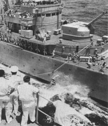 Captain Reyes Leal, chief of Staff, Venezuelan Squadron, is highlined from the Venezuelan destroyer ARV Nueva Esparta (D-11) to the U.S. Navy guided missile cruiser USS Harry E. Yarnell (DLG-17) during the UNITAS XI exercise, in 1970.